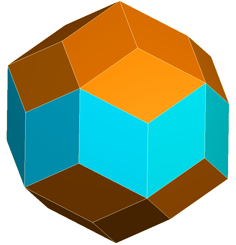 Rhombic triacontahedron colored to show rhombic icosahedron faces with middle removed